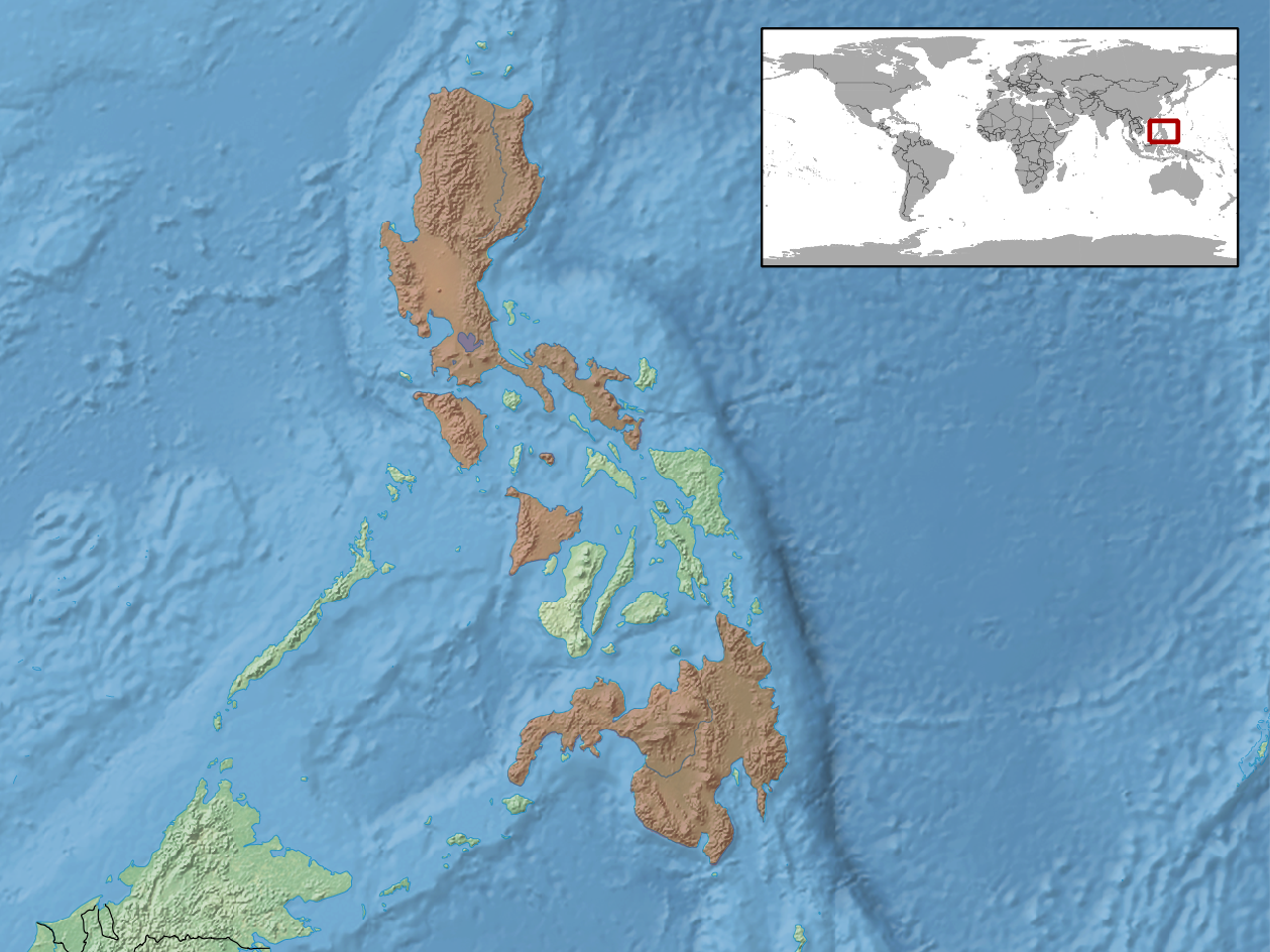 geographic distribution of Dryophiops philippina (Native: Philippines)